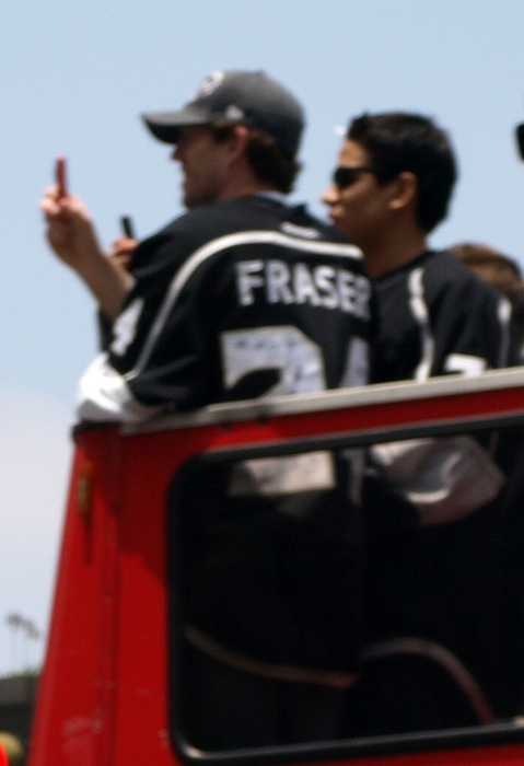 Colin Fraser (left) and Jordan Nolan (right) of the Los Angeles Kings at the Kings' 2012 Stanley Cup victory parade in downtown Los Angeles. This photograph was taken with an Olympus E-510 DSLR camera and edited (color balance, sharpness, crop, brightness and contrast) using ArcSoft Photostudio 5.5